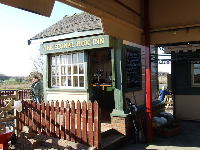 The Signal Box Inn The world's smallest pub at 8ft square.